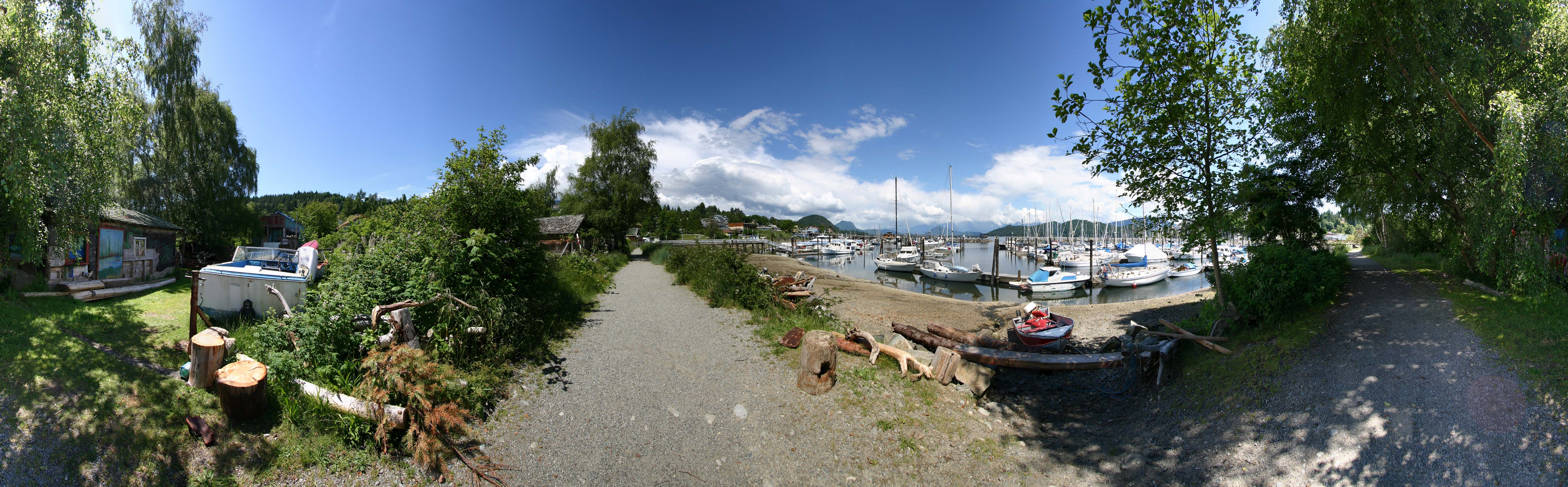 Gibsons Harbour, Sunshine Coast, British Columbia